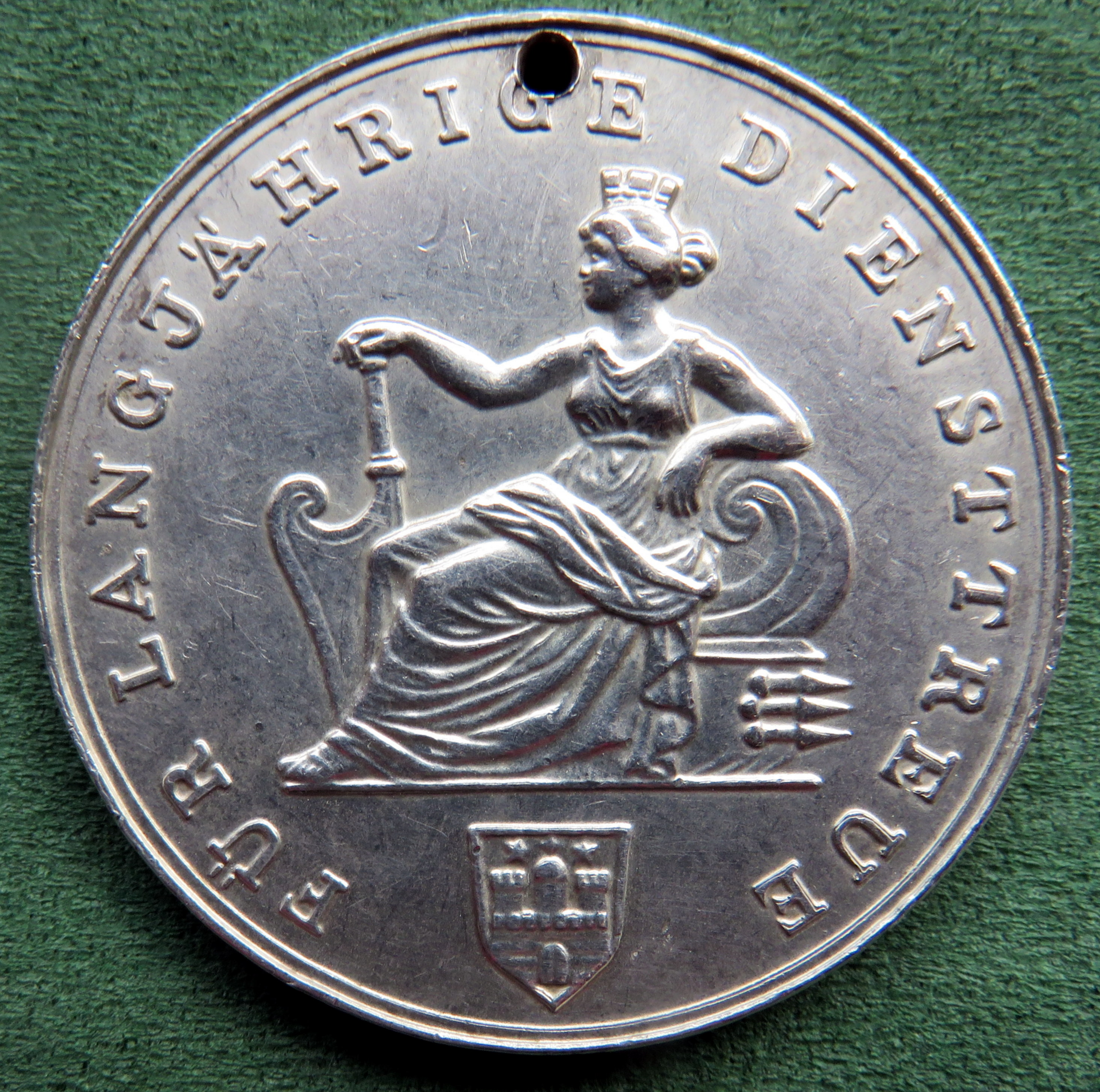 Silver Medal of Merit by Hamburg „Patriotic Society of 1765 for the promotion of arts and business“ . Diameter: 33 mm. Family origin. Obverse.